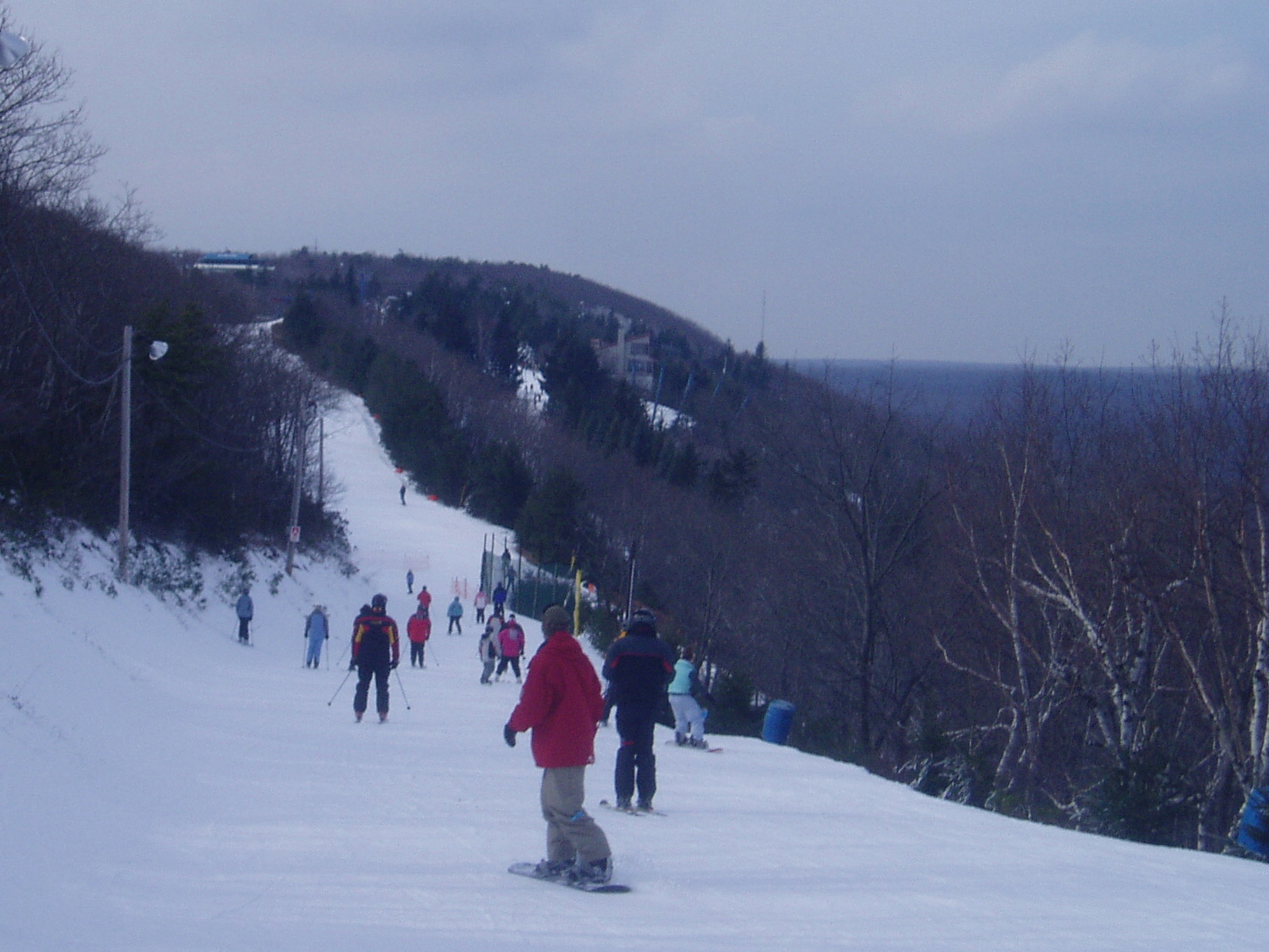 Mt.Camelback Ski Area Febr.2006